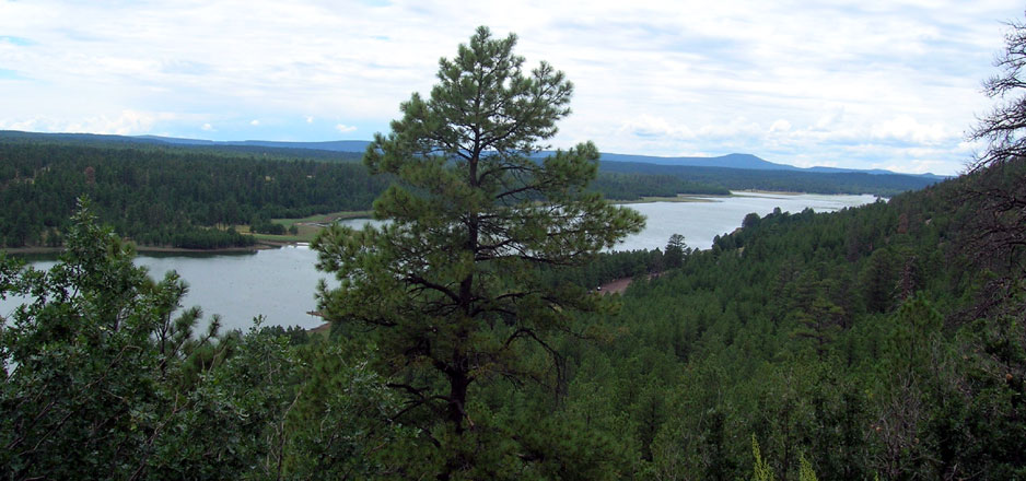 Lower Lake Mary, in northern Arizona.